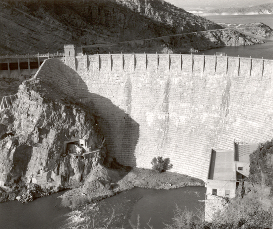 Roosevelt Dam, original masonry construction, completed 1911